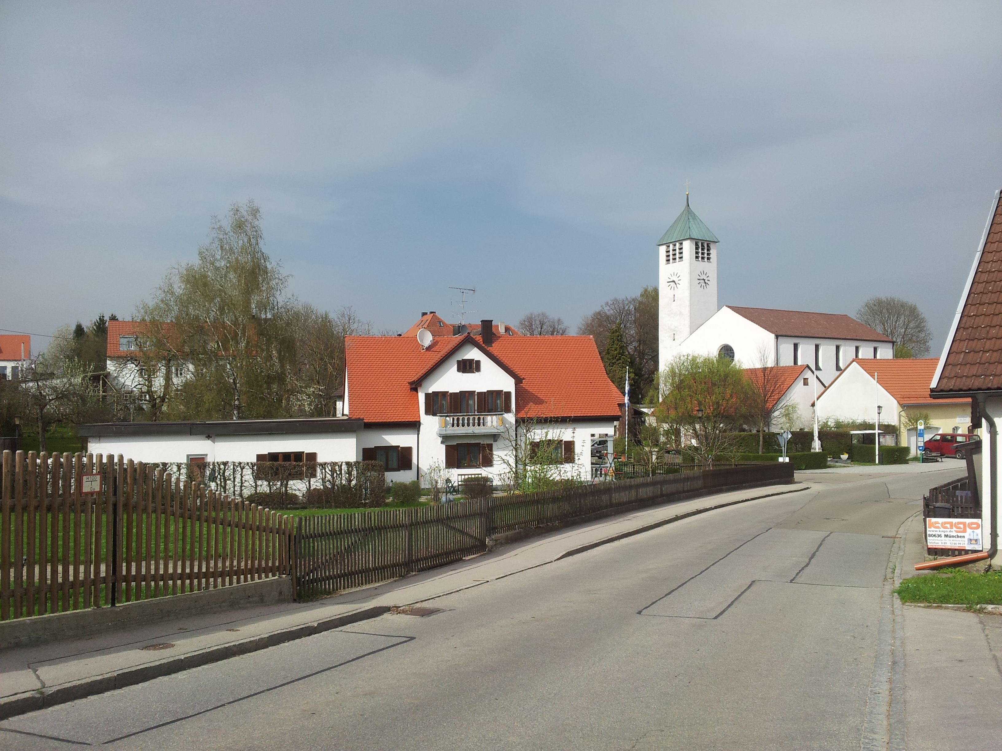 Catholic Church St. Georg (Oberappersdorf)